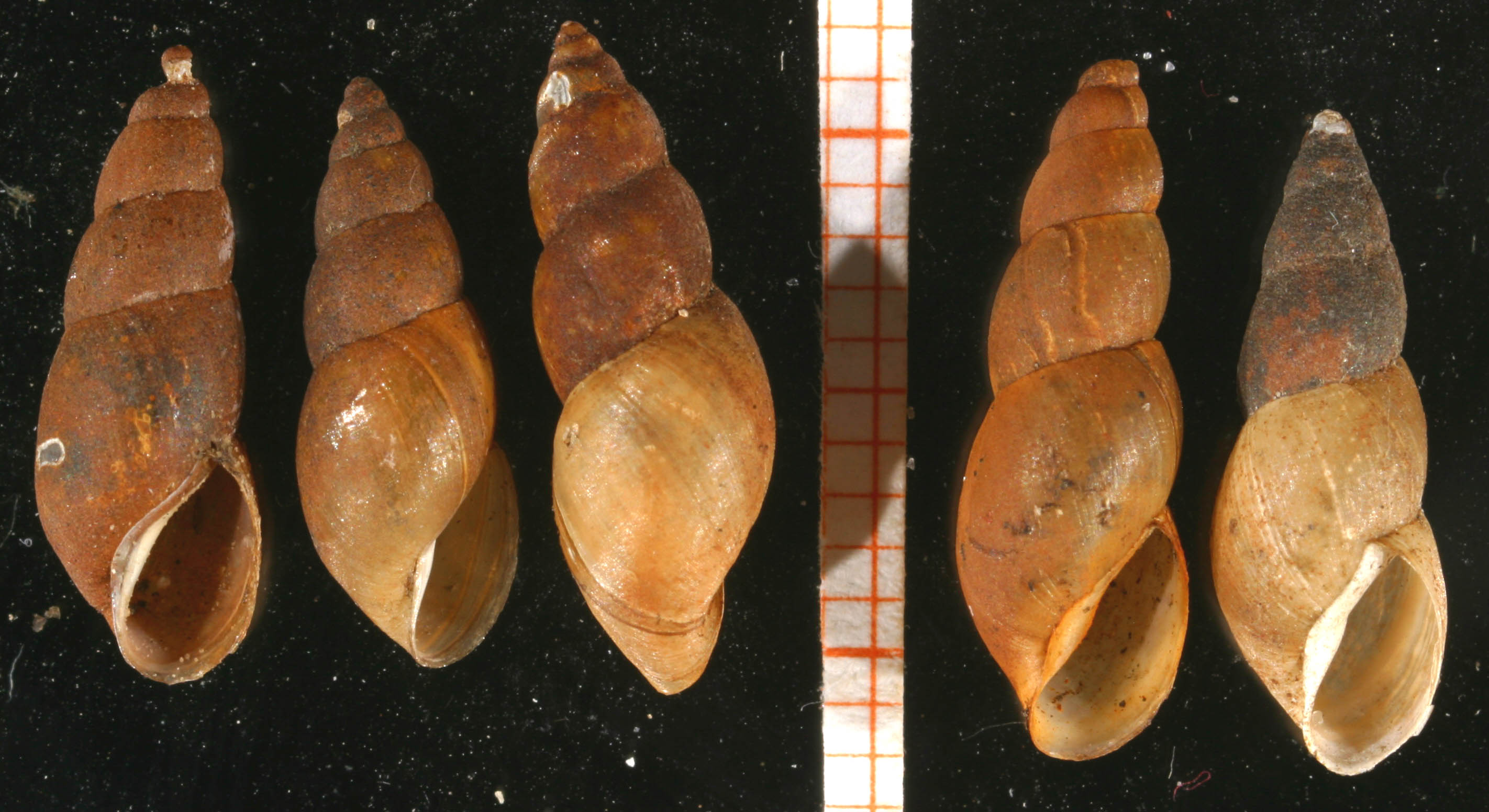 Photo of shells of Omphiscola glabra. Scale in mm. Locality: Germany, near Lauenburg/Elbe. Date: May 1952.